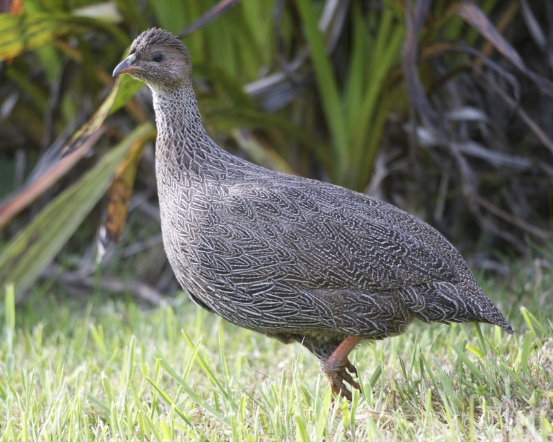 Cape Francolin Pternistis capensis (syn. Francolinus capensis). Kirstenbosch, Capetown, South Africa. 5 October 2009.